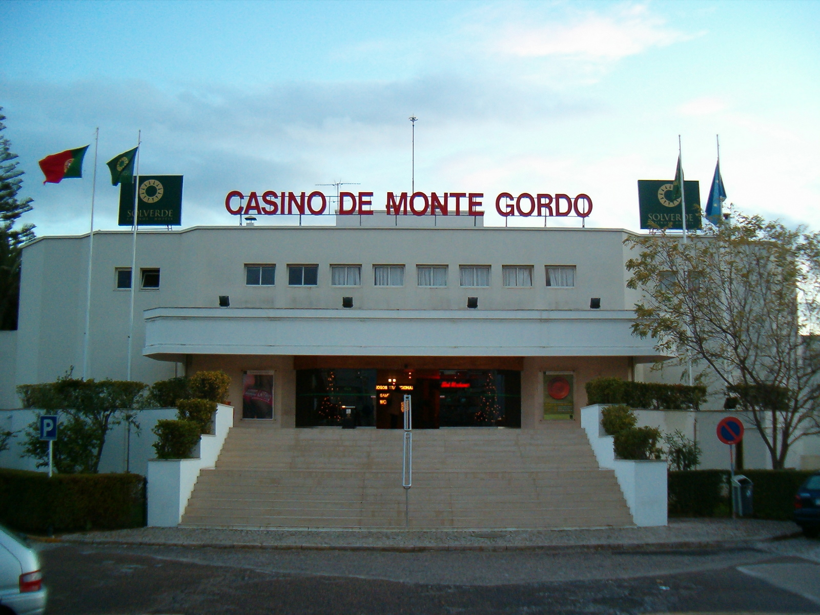 Monte Gordo (Vila Real de Santo Antonio) - casino